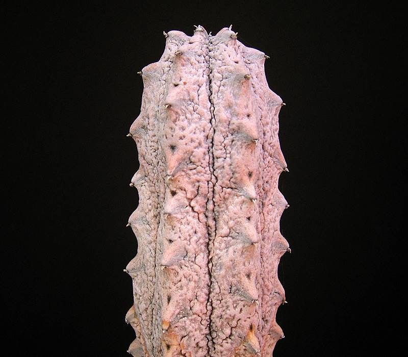 Euphorbia abdelkuri